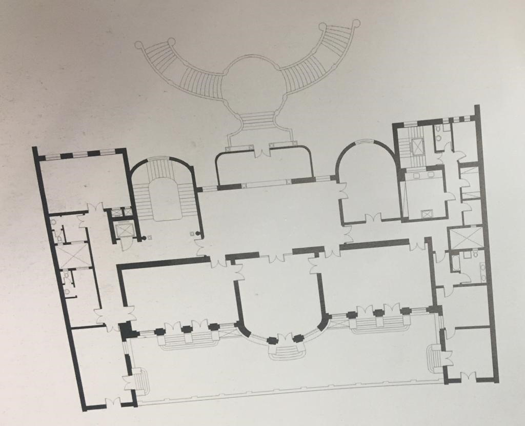 Pereda Palace